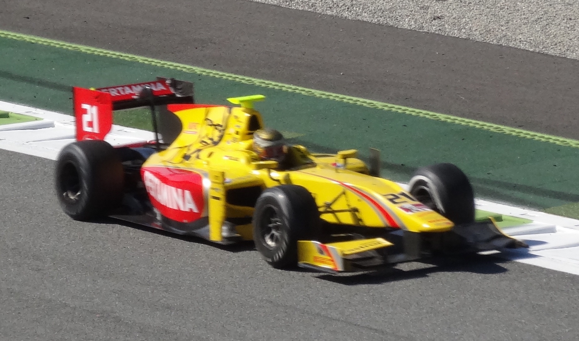 Sean Gelael Monza F2 2017